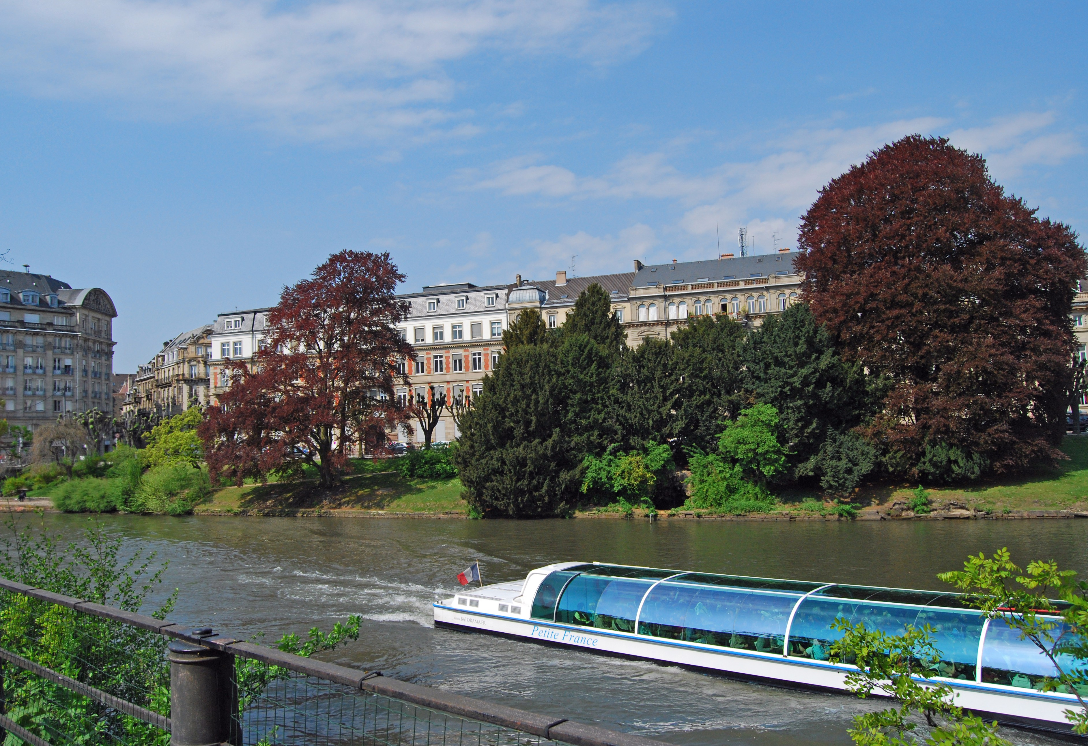 Tourist boat on river Ill in Strasbourg